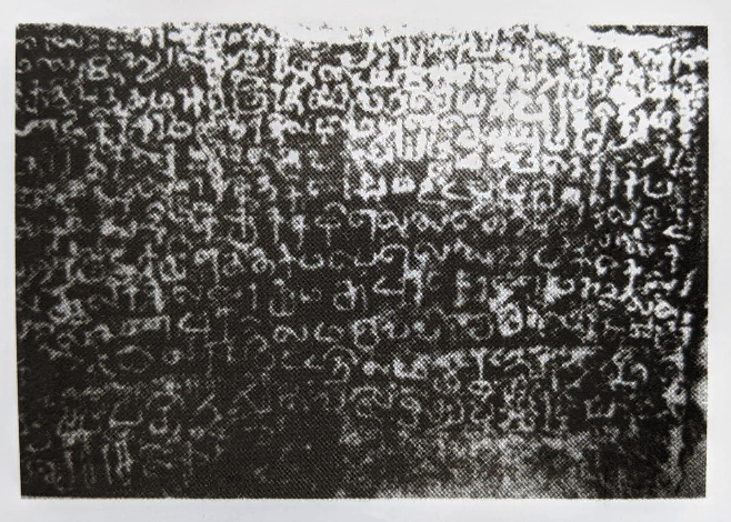 Nilaveli inscription